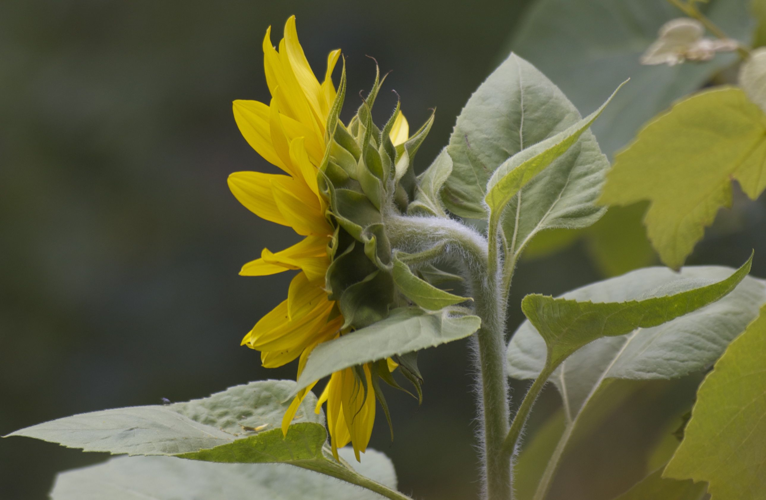 Sunflower (Helianthus annuus), lateral view.